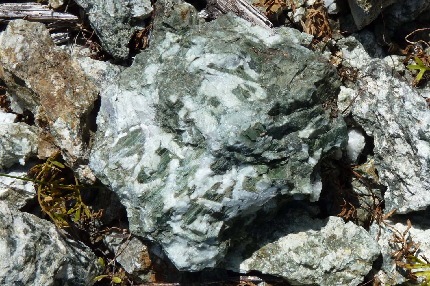 A shard of euphotide, a type of gabbro. Megacrystals of the main components - plagioclase (whitish) and pyroxenes (darker, greenish, laminated) - are visible. Picture taken in situ from a Jurassic-aged ophiolite outcrop in the Northern Apennine, between Emilia-Romagna and Tuscany (Italy).